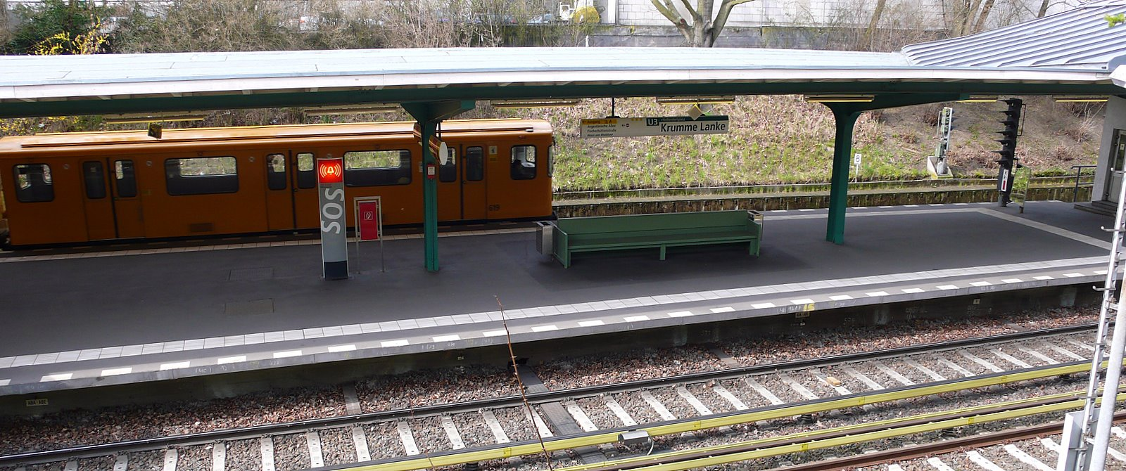 UBahnhof Krumme Lanke